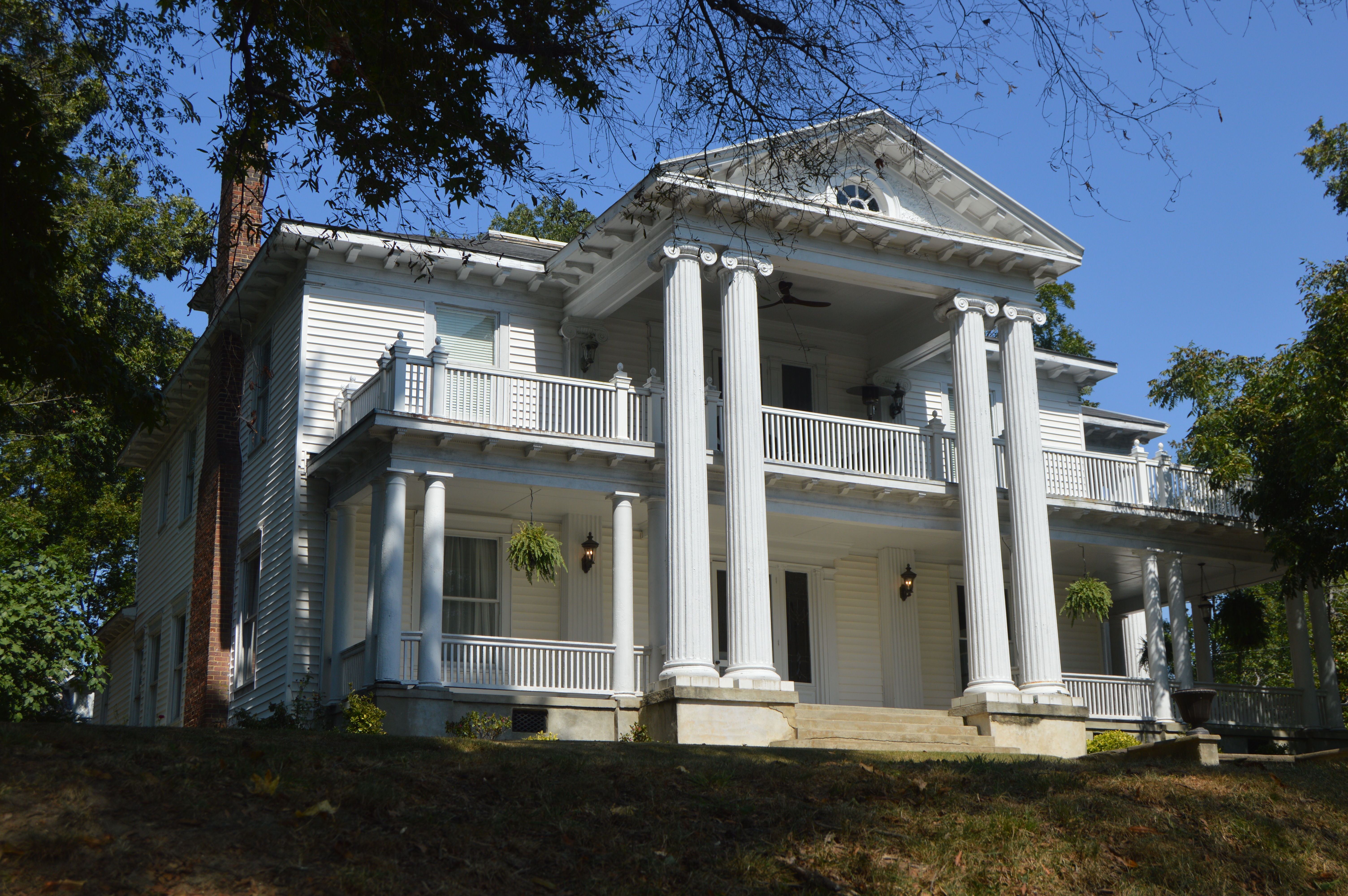 Front and western side of the J.W. Murray House, located at 703 W. Davis Street in Burlington, North Carolina, United States. Built in 1900, it is one of the most important buildings within the West Davis Street-Fountain Place Historic District, a historic district that is listed on the National Register of Historic Places.